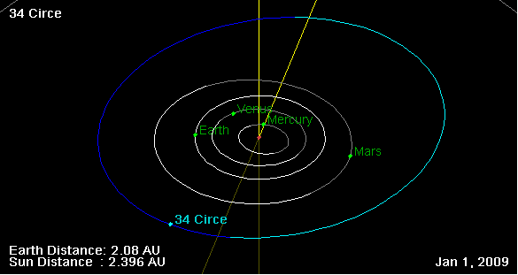 34 Circe orbit, and his position on 01 Jan 2009 (NASA Orbit Viewer applet)